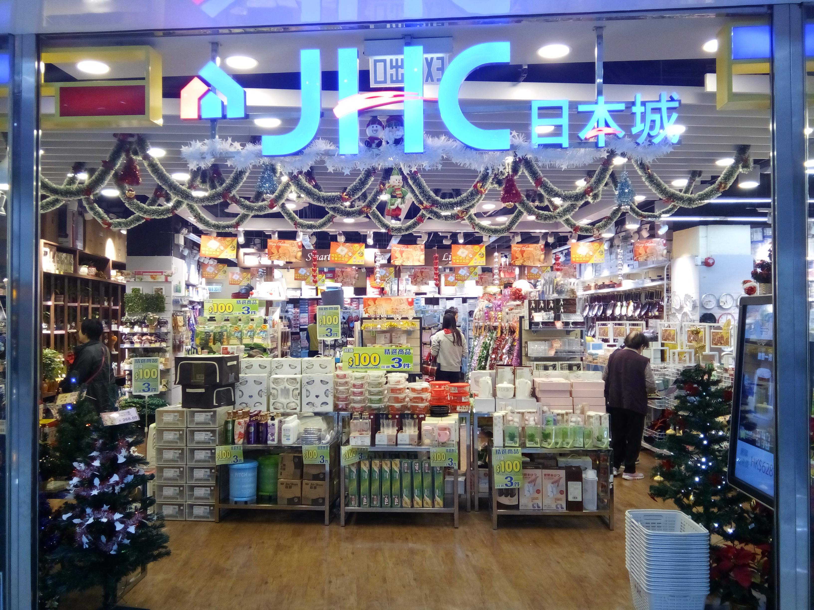 HK ALC South Horizons 海怡廣場 西翼 Marina Square West Centre shop in Dec 2016